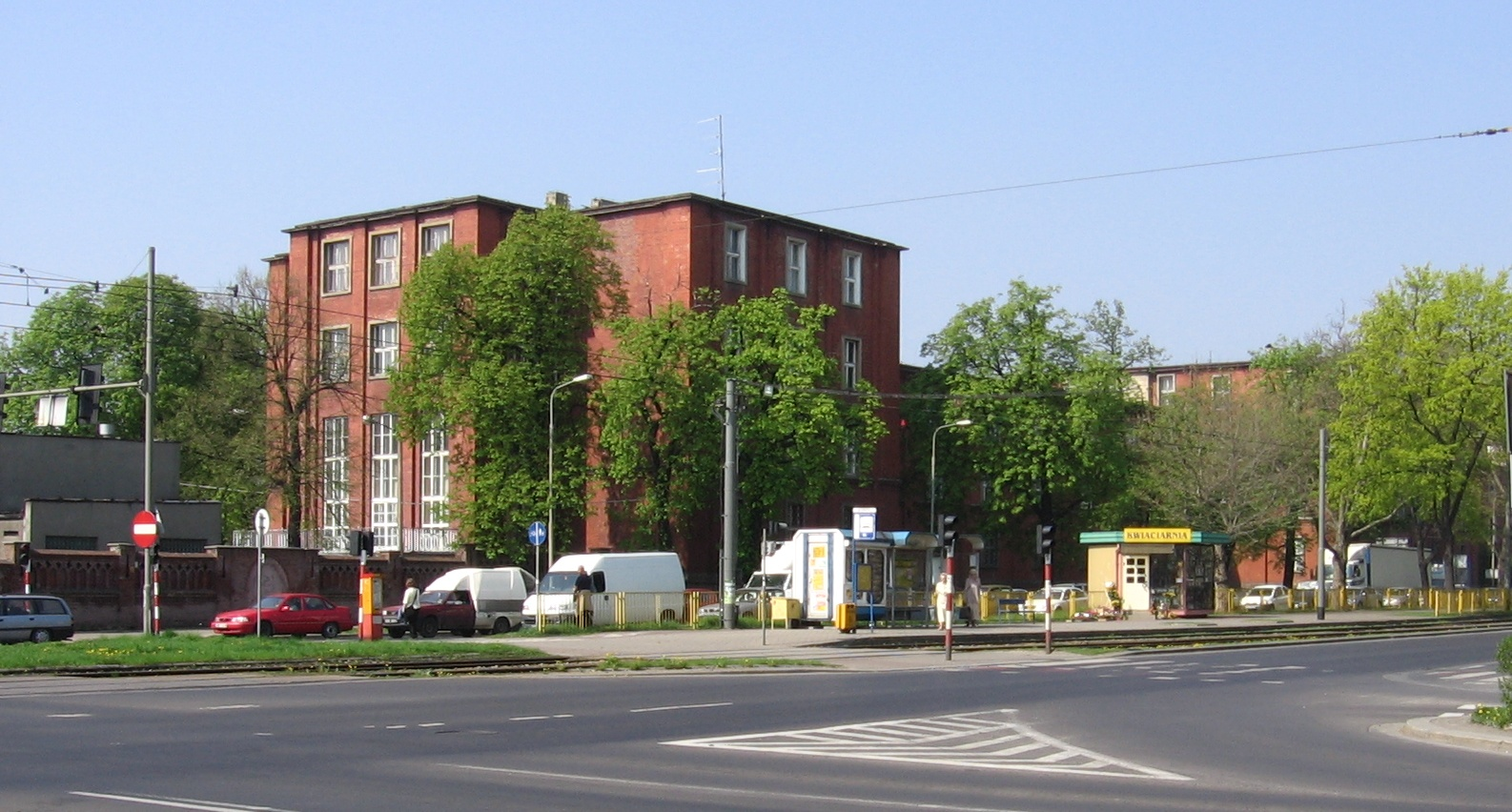 Former Prussian cuirassier (now – Polish gendarmerie) barracks (built 1850) in Wrocław, Poland